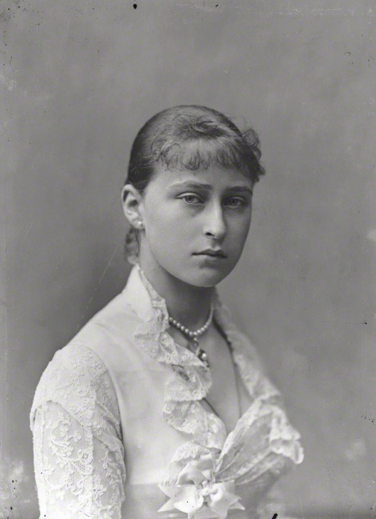 Princess Elizabeth of Hesse